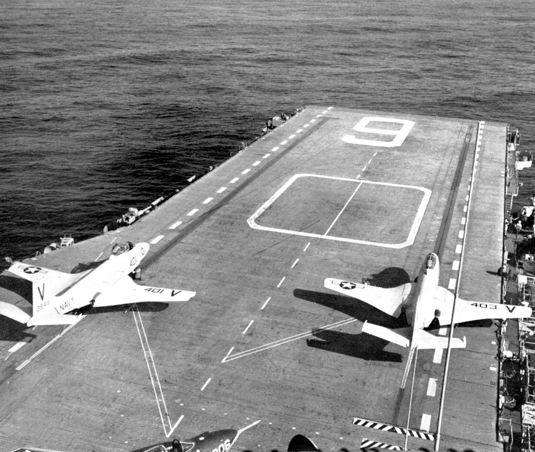 Two U.S. Navy McDonnell F2H-3 Banshees of Fighter Squadron 114 (VF-114) "Executioners" are about to be launched from the aircraft carrier USS Essex (CVA-9). VF-114 was assigned to Carrier Air Group 11 (CVG-11) aboard the Essex for a deployment to the Western Pacific from 16 July 1956 to 26 January 1957.